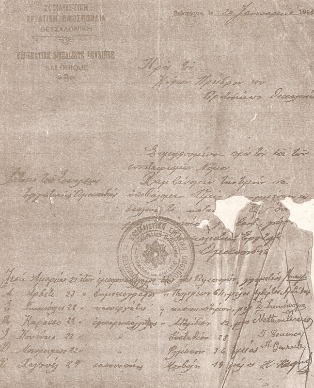 Socialist Workers' Federation, political party founded in 1909 in Ottoman Thessaloniki, called Federacion (Φεντερασιόν) in Greek. The document with which the part is asking from the court authority for recognition